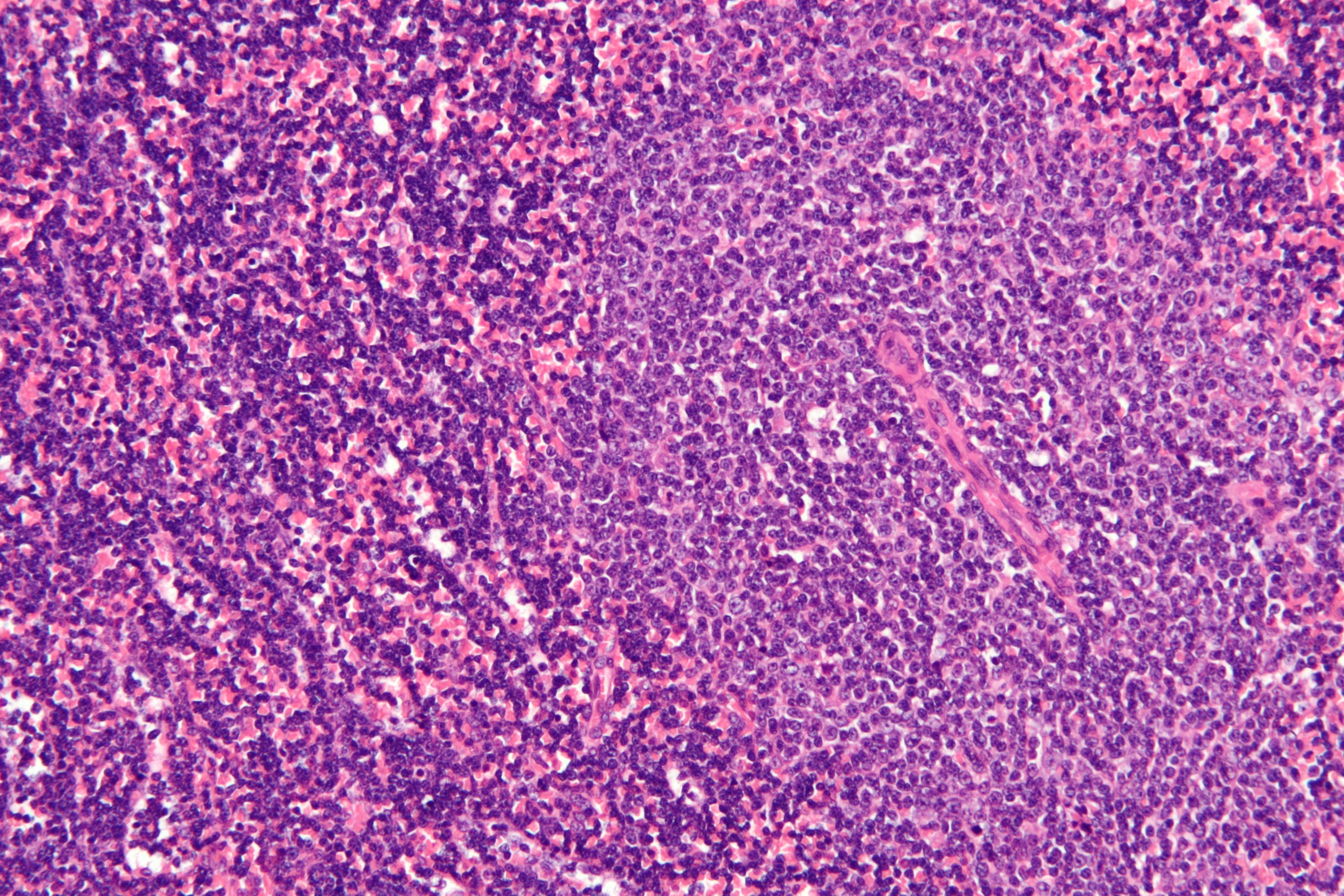 High magnification micrograph of B-cell chronic lymphocytic leukemia/small cell lymphoma, abbreviated B-CLL and SLL. H&E stain. Lymph node. The images show the typical histomorphology with (1) proliferation centres (also known as pseudofollicles[1]) that consist of slightly larger, lighter staining lymphocytes with discernible nucleoli, surrounded by (2) small, darker staining lymphocytes without easily discernible nucleoli. Related images Low mag. Intermed. mag. High mag. Very high mag. References ↑ (May 1994). "Proliferation centres in B-cell malignant lymphoma, lymphocytic (B-CLL): an immunophenotypic study.". Histopathology 24 (5): 445-51.